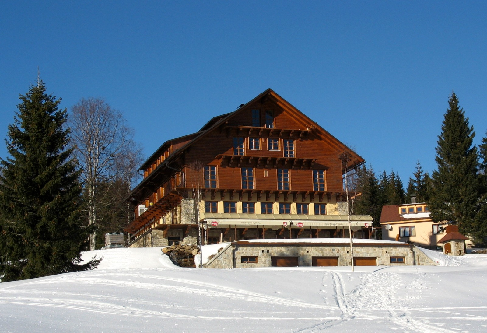 The abandoned village Bučina in the Šumava Mts. in Czech republic